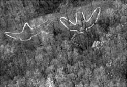 Bird Mounds at Effigy Mounds National Monument, Iowa, USA (southern most part of Marching Bear Mounds)